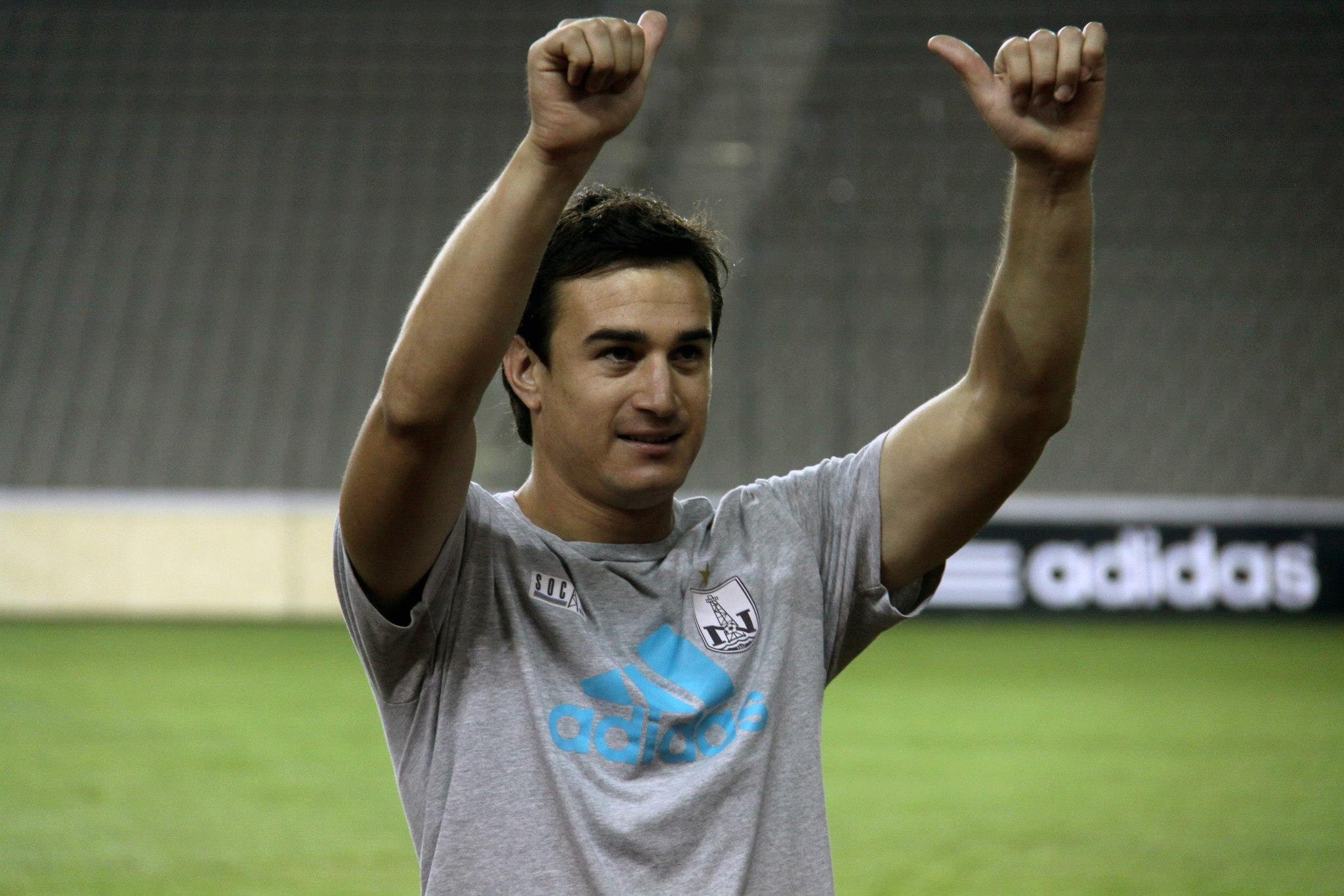 UEFA Europa League 2012-10-04 Nicolás Canales before the match Neftchi Baku-Inter Milan.